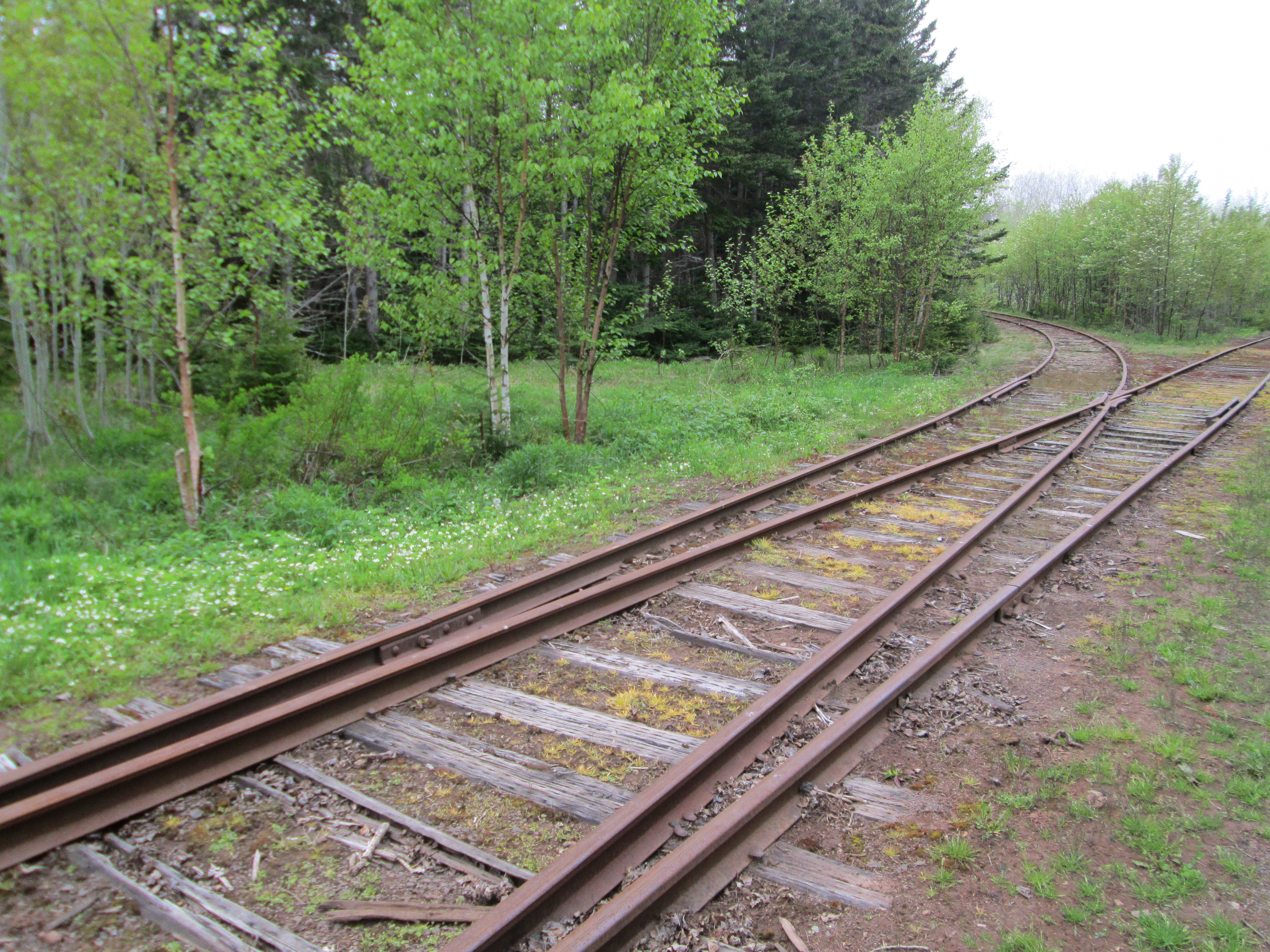 June 4, 2017. Almost all of the PEI rail line was removed after the last freight rail service in 1989. Passenger service ended years before. These tracks were left untouched to be part of the PEI Railway Museum.